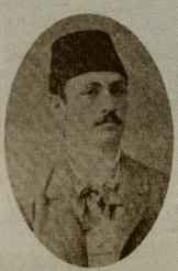 (Ali) Faik Üstünidman